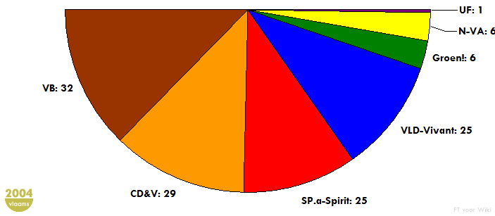 Inaugural seat division of the Flemish Parliament in 2004